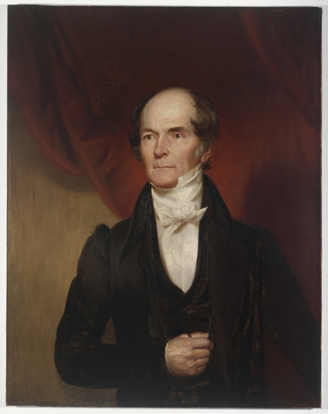 Frances Forbes, a Chief Justice of the Supreme Court of Newfoundland, and the first Chief Justice of the Supreme Court of New South Wales.